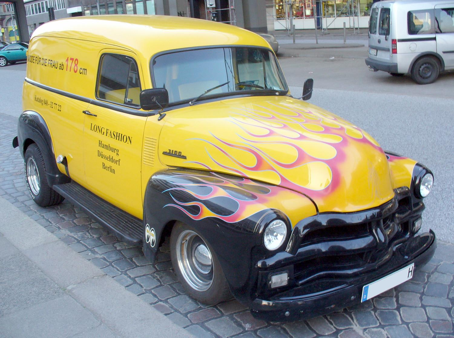 Chevrolet 3100 Panel (customized).